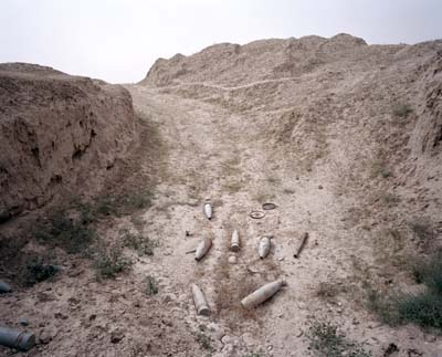 Paul Seawright's Valley from the series Hidden, taken in Afghanistan in 2002.